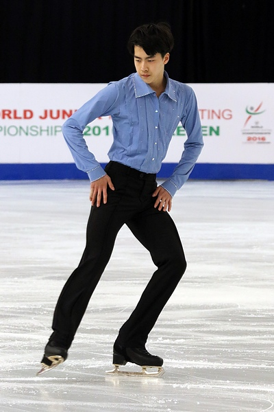 Photos – Junior World Championships 2016 – Men (Se Jong BYUN KOR – 29th Place)